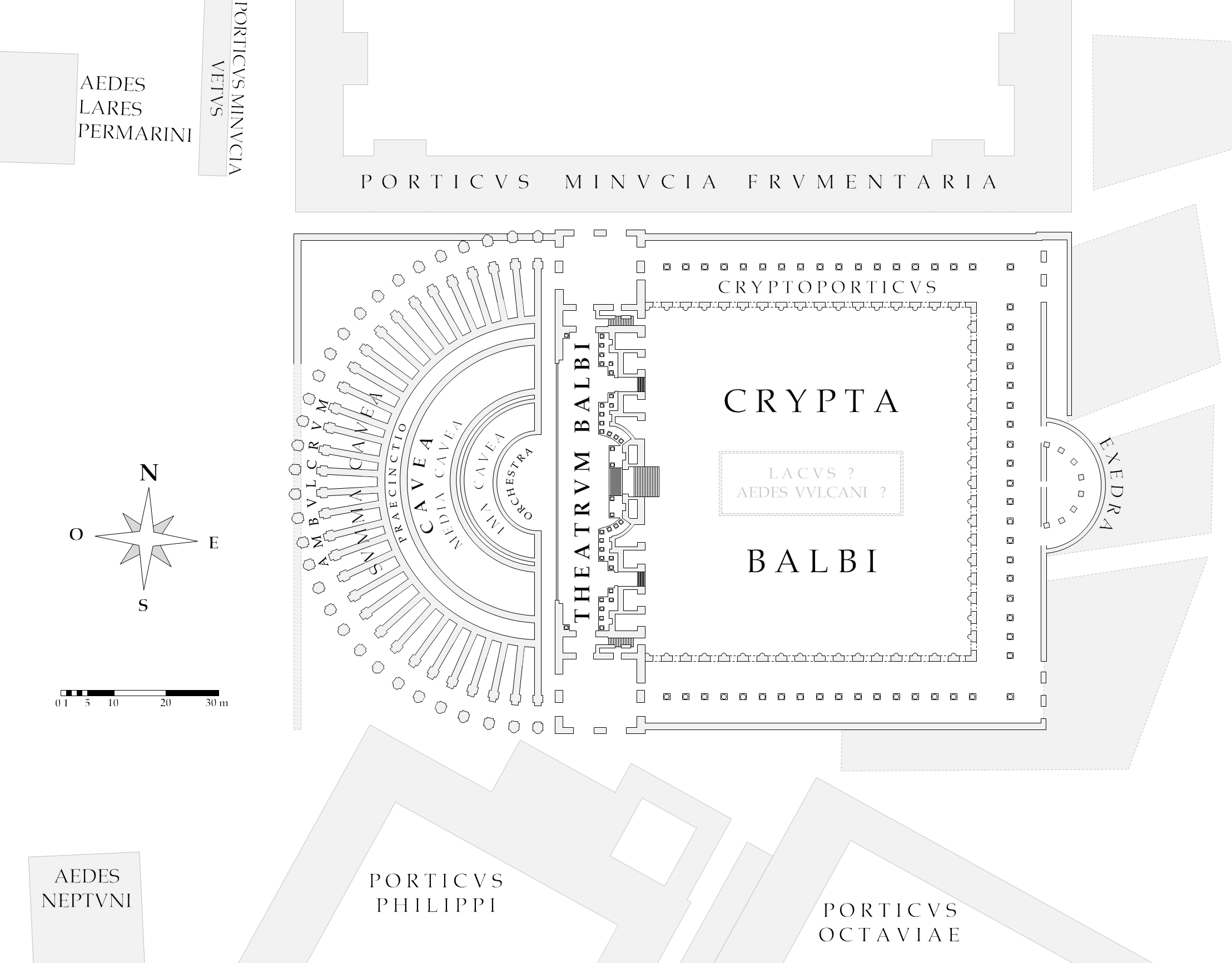 Map of the Theatrum Balbi and Crypta Balbi D'après : - Rodolfo Lanciani, Forma Urbis Romae, Rome, 1893-1901 - Frank Sear, Roman Theatres : an architectural study, 2006 - Filippo Coarelli, Rome and environs : an archaeological guide, 2007 - Andrea Carandini, La Roma di Augusto in 100 monumenti, 2015